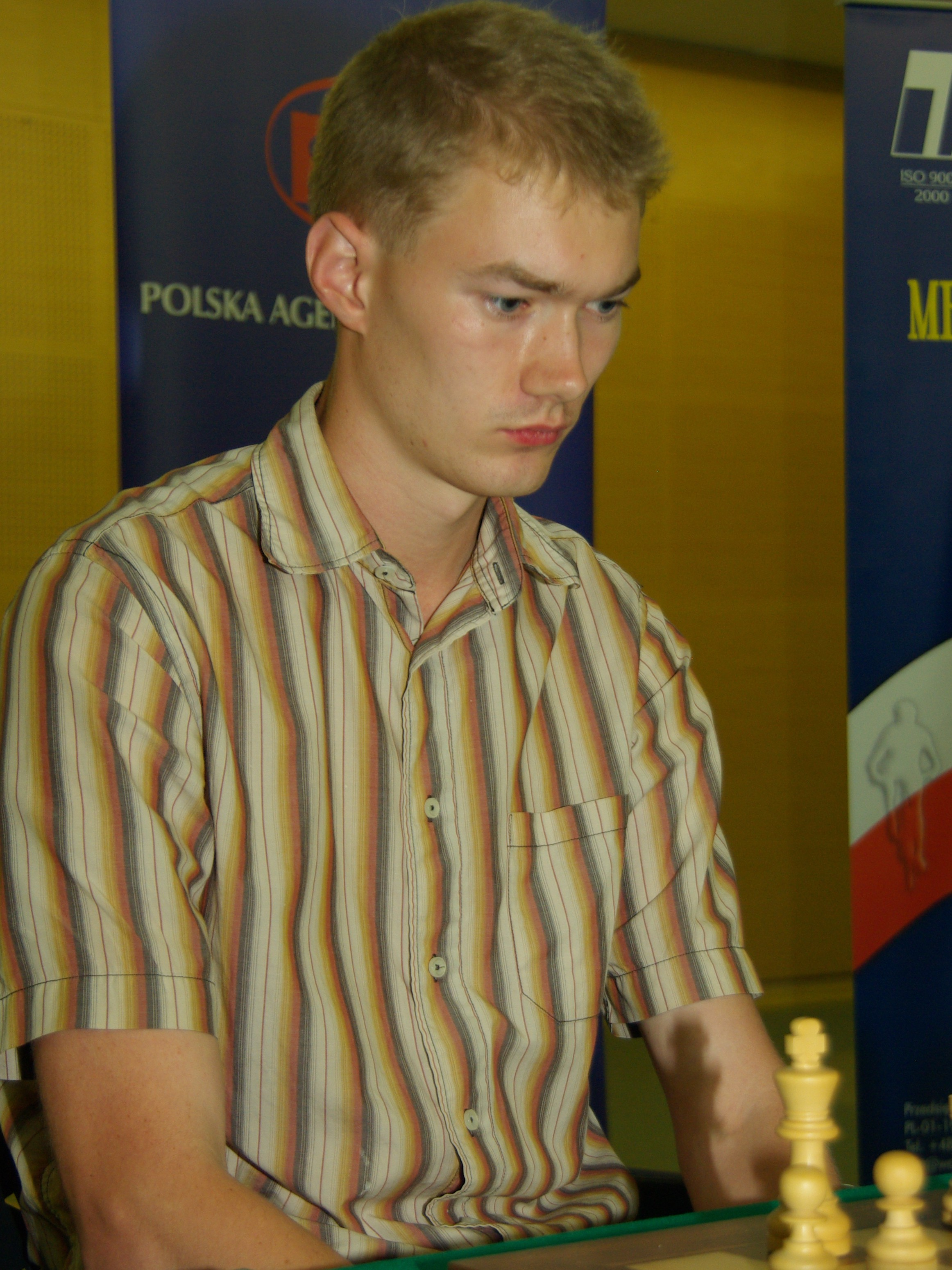 GM Emanuel Berg, Sweden, Masovia Chess Festival, Warsaw 2008